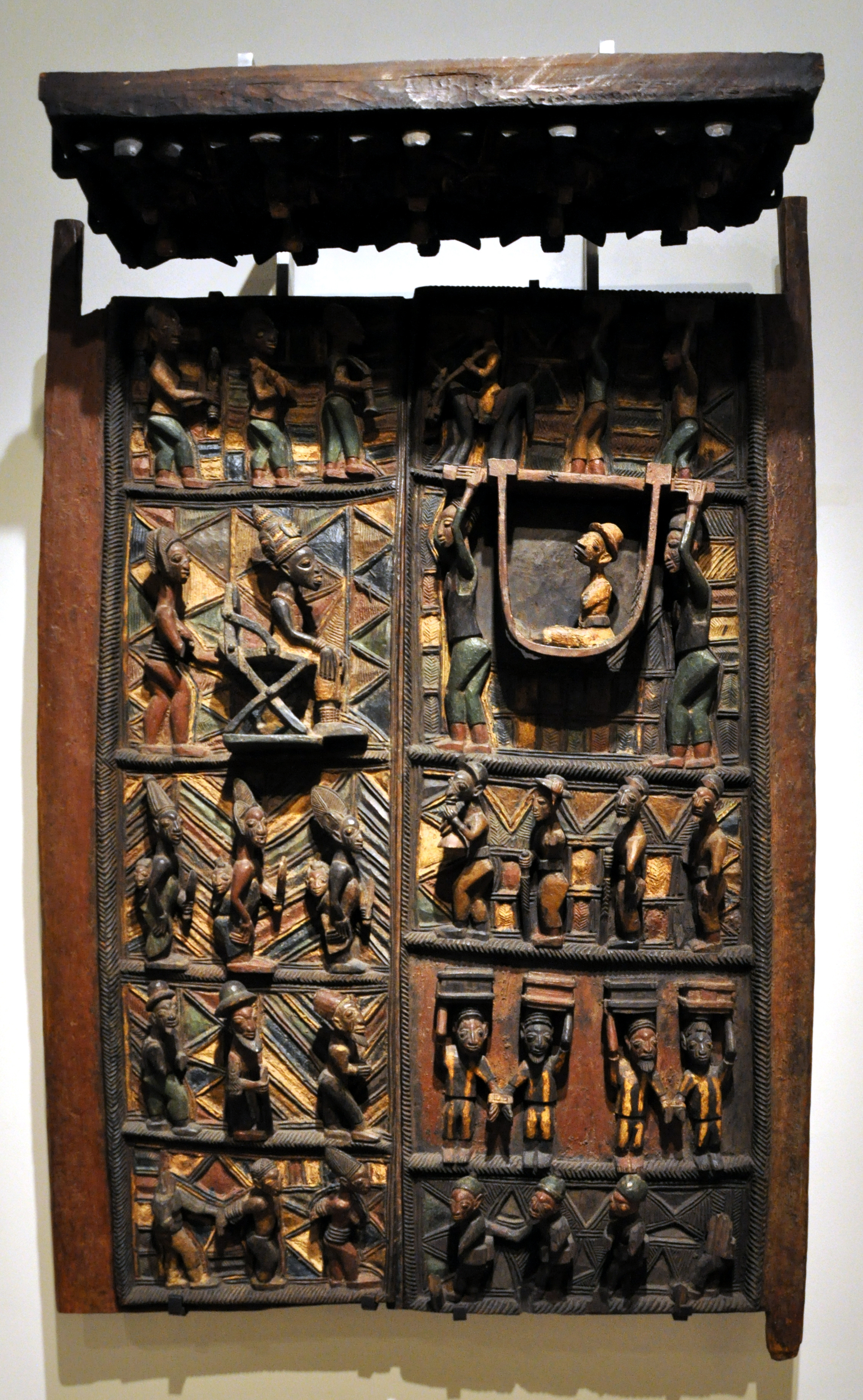 British Museum referenceAf1979,01.4546.aDetailed descriptionDoor panel, Yoruba people, Nigeria, about 1910–1914LocationRoom 25 British Museum referenceAf1979,01.4546.bDetailed descriptionDoor panel, Yoruba people, Nigeria, about 1910–1914LocationRoom 25 British Museum referenceAf1979,01.4546.cDetailed descriptionLintel, Yoruba people, Nigeria, about 1910–1914LocationRoom 25